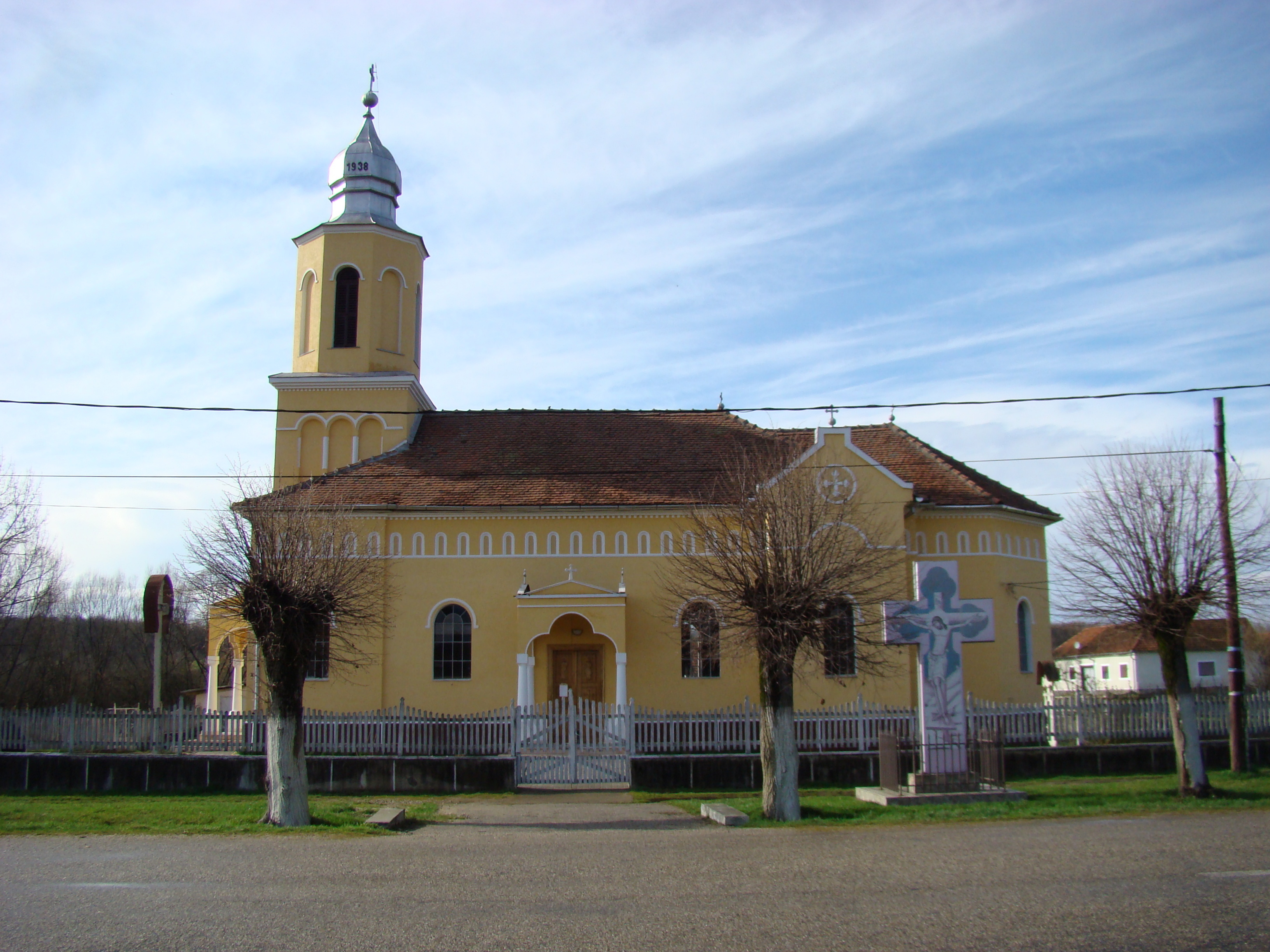 Donceni, Arad county, Romania